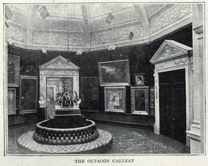 The Octagon Gallery at the Grafton Galleries, from The Opening of the New Grafton Galleries, Graphic, 25 February 1893, 47: 184